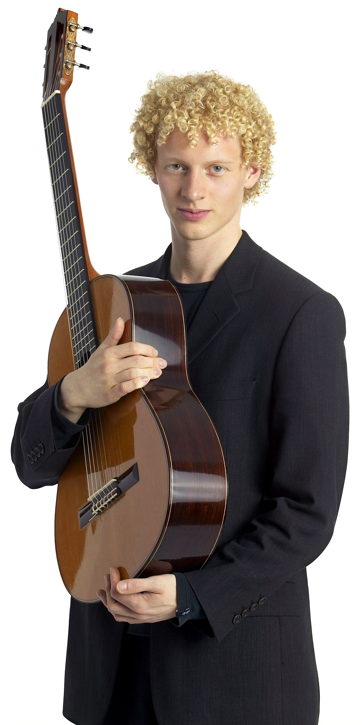 Johannes Möller